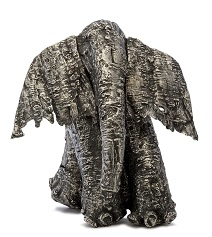 Elefantito, stainless steel sculpture created by Katherine Taylor